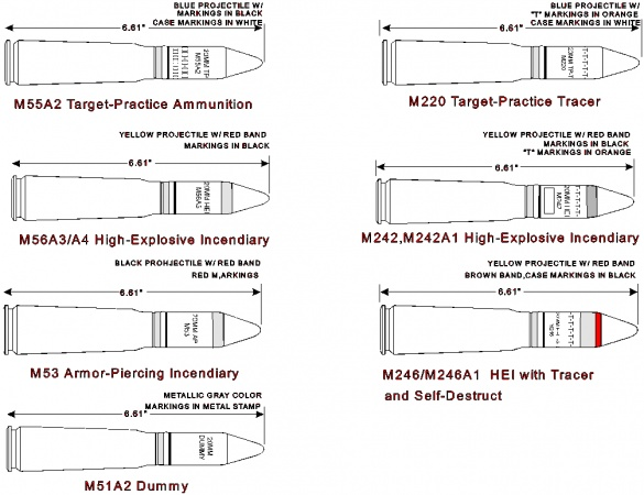 Twenty millimeter fuze functioning and penetration are affected by velocity and angle of impact at all ranges, particularly at ranges in the upper one third of the 2,000 meter value. However, this depends on the type of target that is engaged.